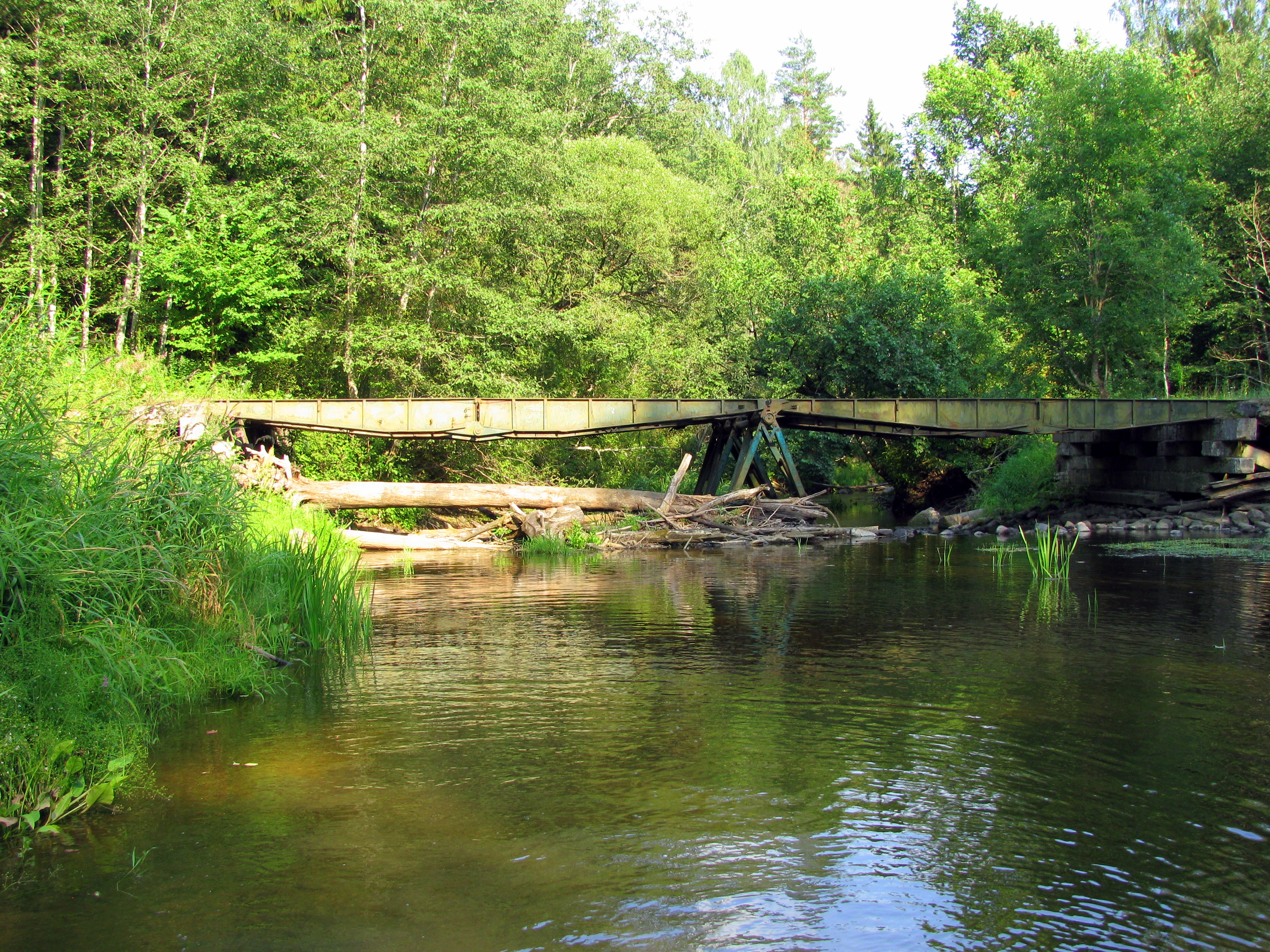 Bridge over Bērzes river, build by Soviet army.